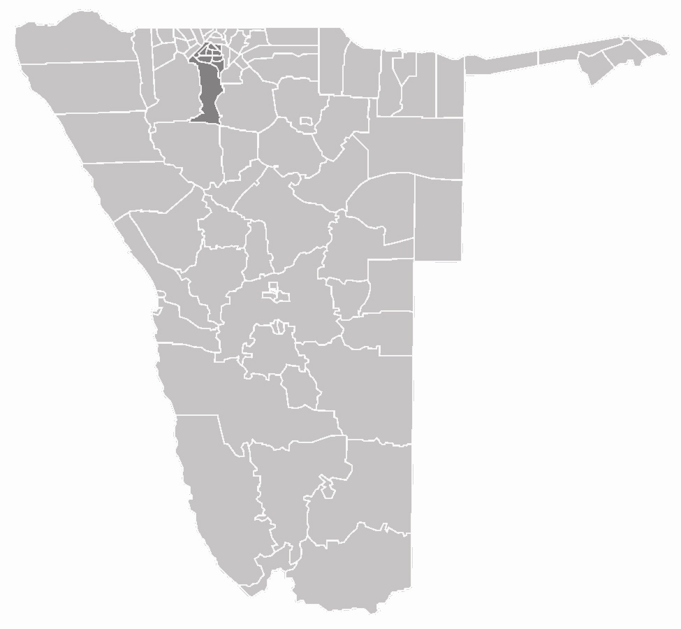 map of the Oshana region in Namibia